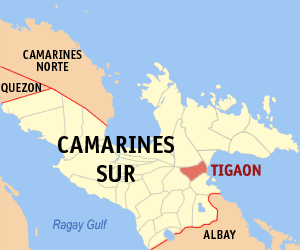 Map of Camarines Sur showing the location of Tigaon